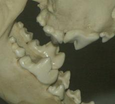 Carnassials of an Italian wolf skull